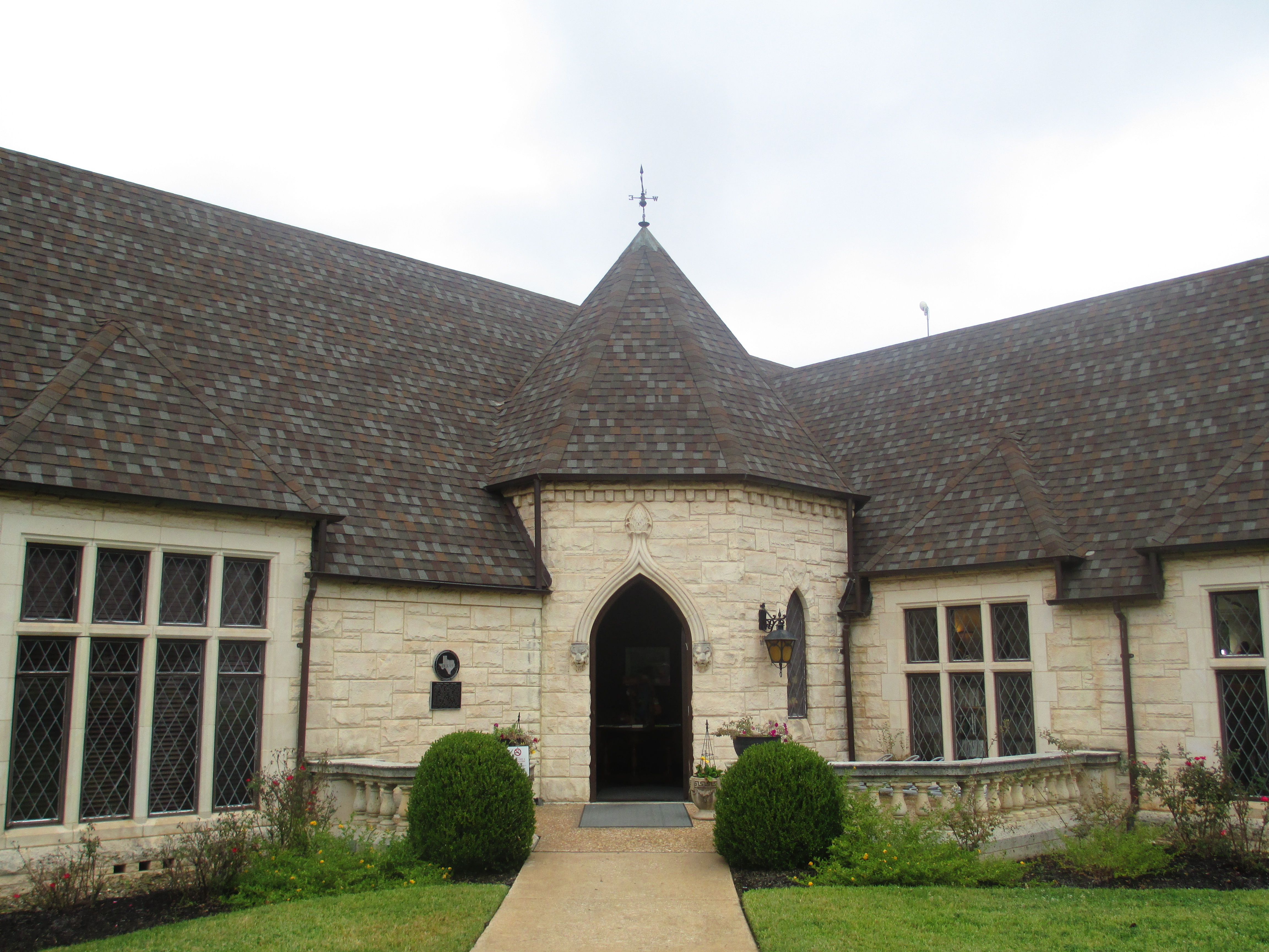 I took photo of Kilgore Library in Kilgore, TX, with a Canon camera.